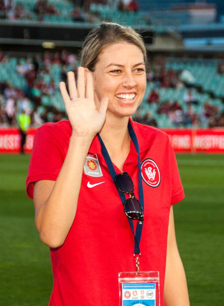 Kennedy greets the Wanderers supporters